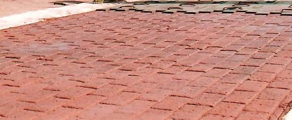 Stamped concrete made to look like bricks